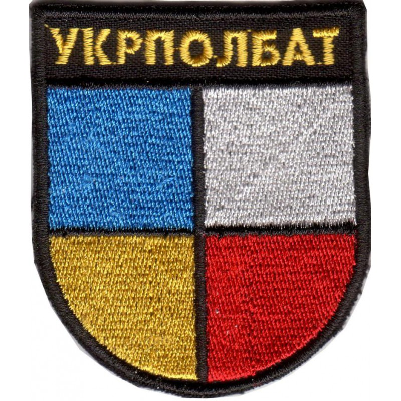 Polish–Ukrainian Peace Force Battalion - Sleeve Insignia